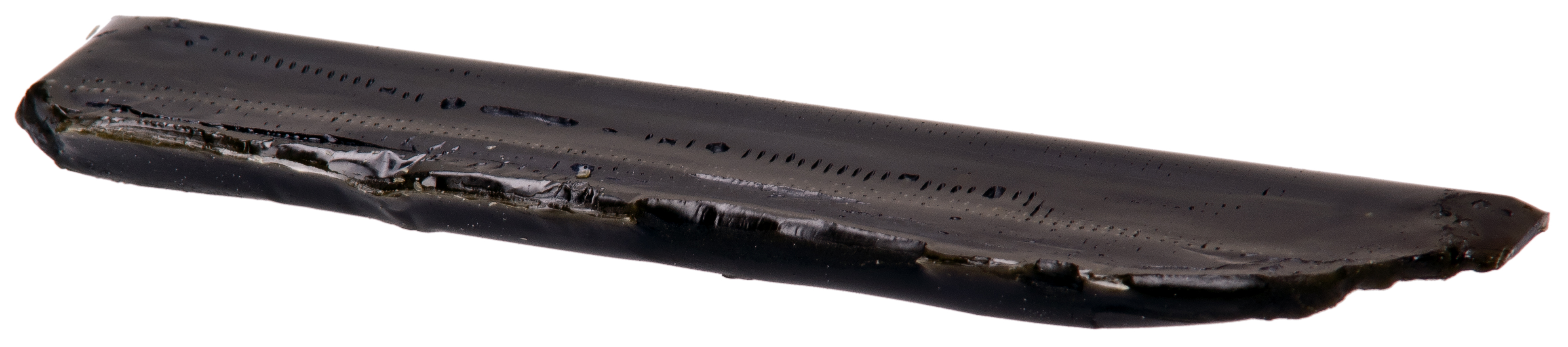 A Choo Choo Bar, a licorice candy.